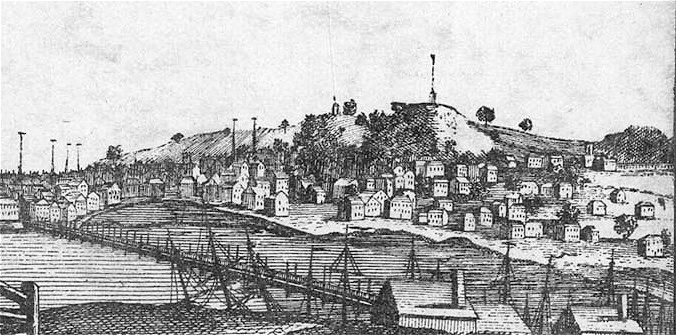 Beacon Hill, Boston, 18th c.